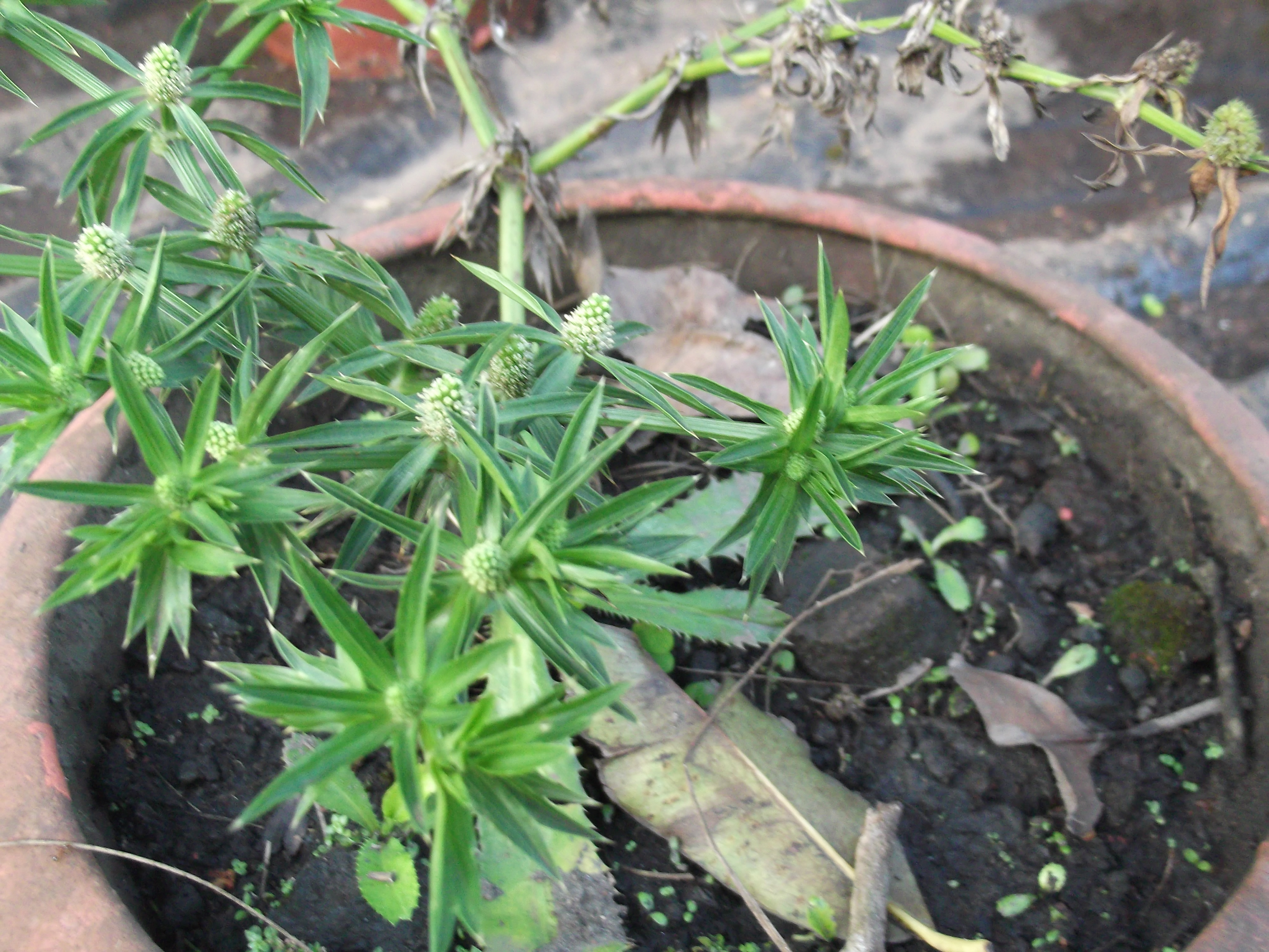 Herb,leaves green,edged by thorny teeth,flowers cone like heads,whitish.